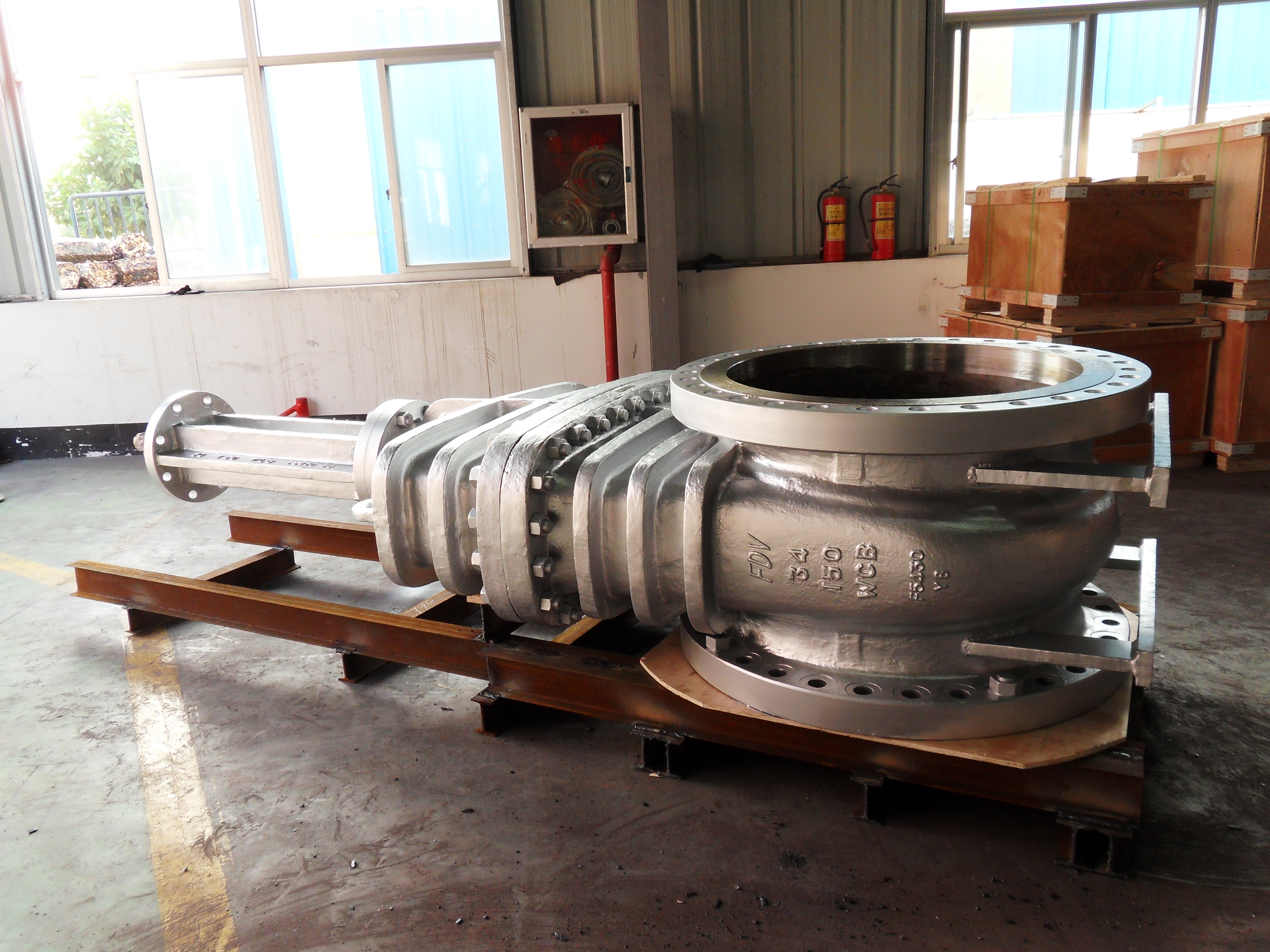 Gate valves. Valves and are generally made of plastic or steel, the latter being the most widely used in chemical and petrochemical applications. Steel grades range from the most common type, namely carbon steel, with standard stainless steel being the second most common. Stainless steel alloys, which include nickel or copper are used in applications that require higher corrosion or heat resistance. In such cases, the most commonly used valve configurations -- ball valves, gate valves, check valves, globe valves and butterfly valves -- are often forged or cast as duplex valves, super duplex valves, alloy 20 valves, monel valves, inconel valves, incoloy valves and 254 SMO valves (6Mo valves). Titanium valves are also used in some highly corrosive applications. Titanium is not a stainless steel alloy.